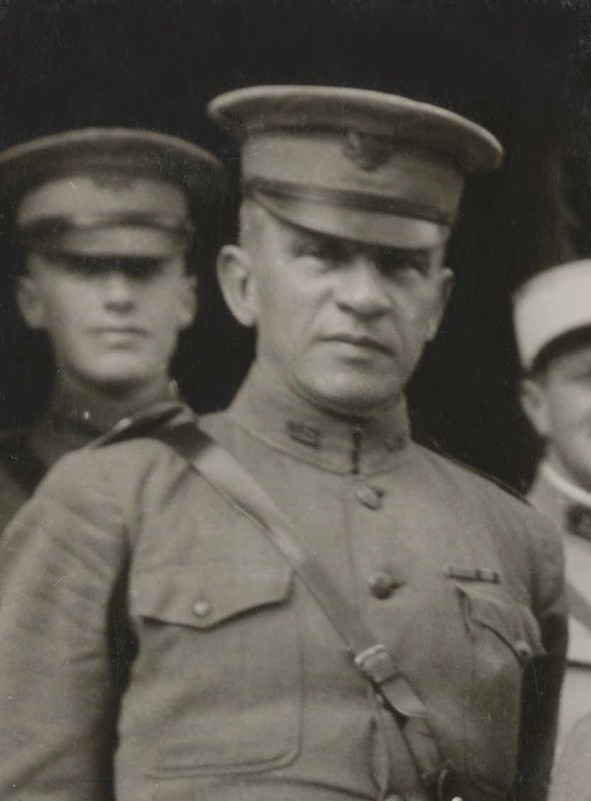 Brig Gen. Thomas G. Hanson, N.A., commanding 178th Infantry Brigade, 89th Div Headquaters, Lucey, France (scratches removed, some damage repaired)